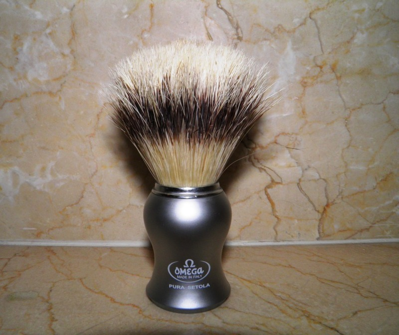 Boar hair shaving brush made by Omega. The boar hair has been dyed to resemble badger hair.